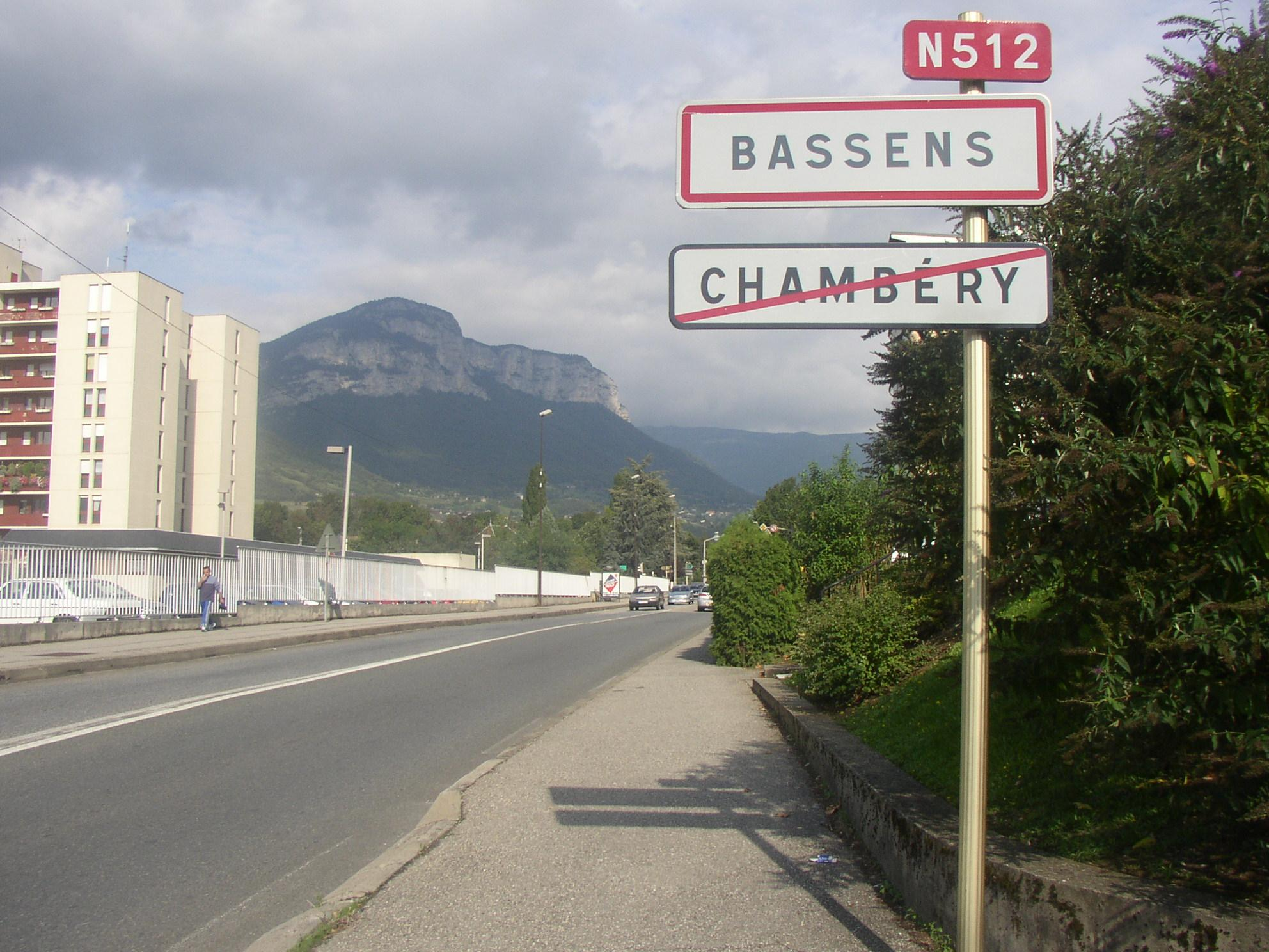 Sign welcoming visitors to the city of Bassens near Chambéry in Savoie, France.